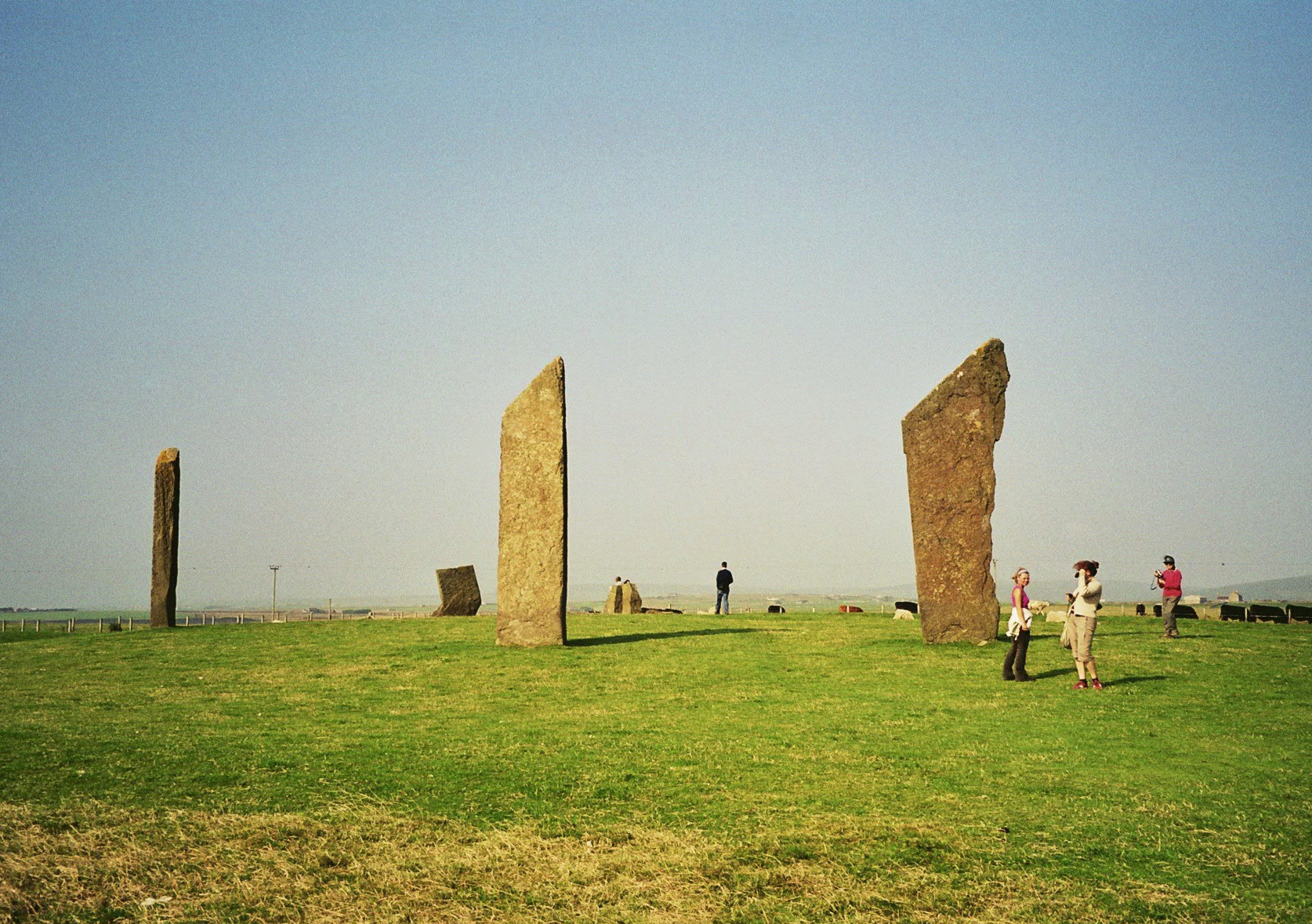 Standing Stones of Stenness, Orkney Mainland.